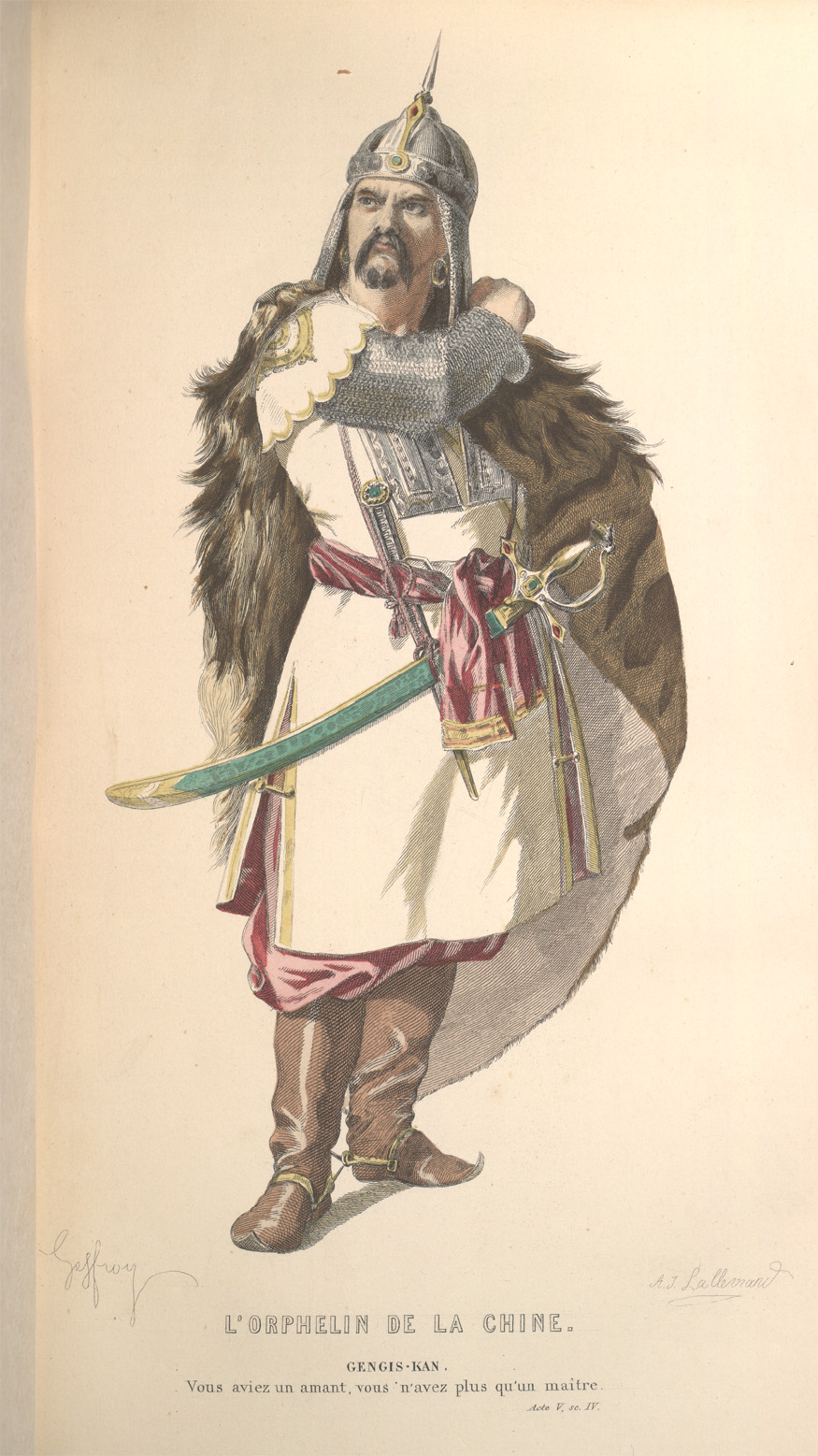 Costume from the play L'Orphelin de la Chine